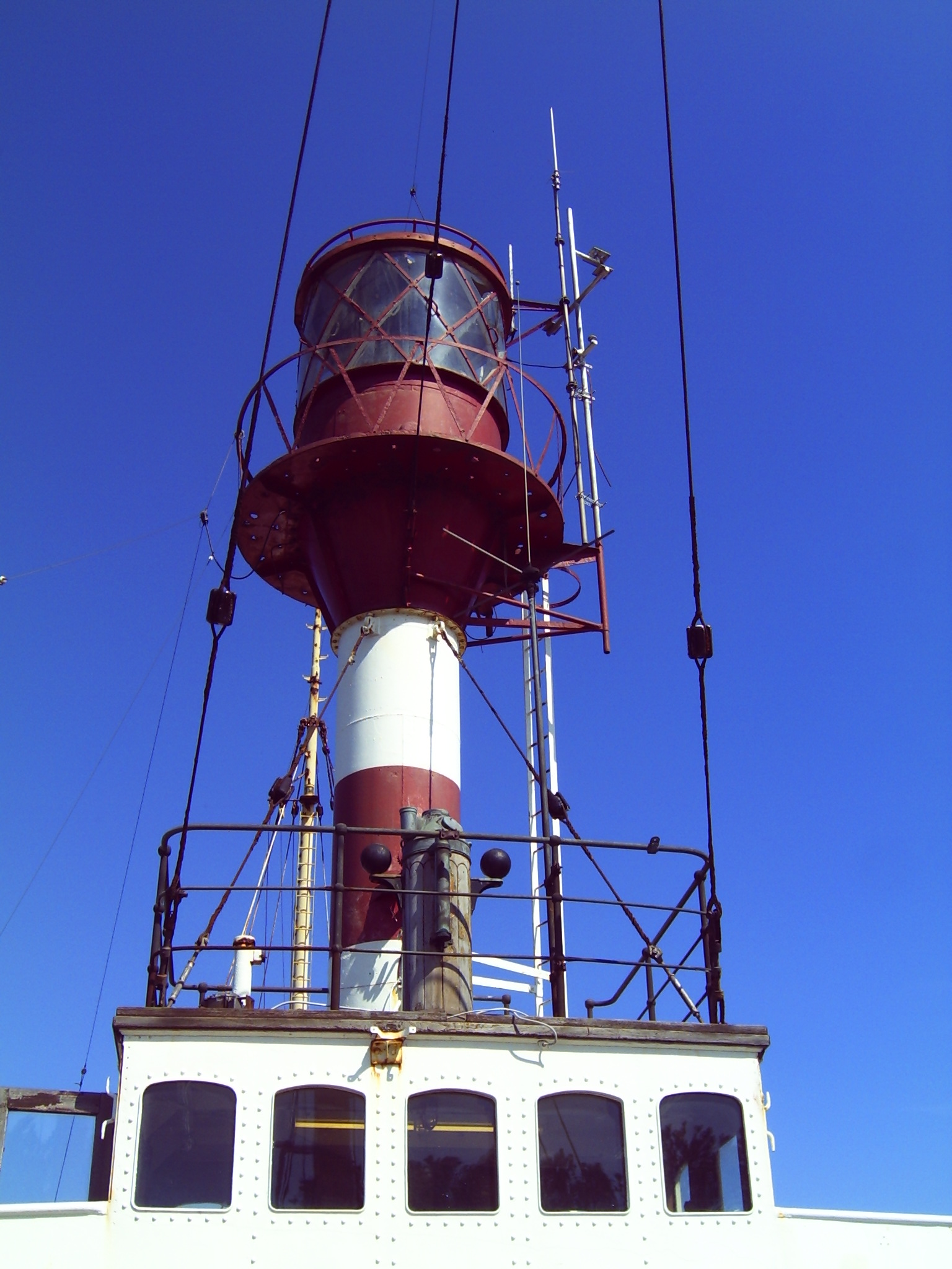 Beacon of lightvessel Westhinder II on display at Seafront maritime theme park, Zeebrugge, Belgium